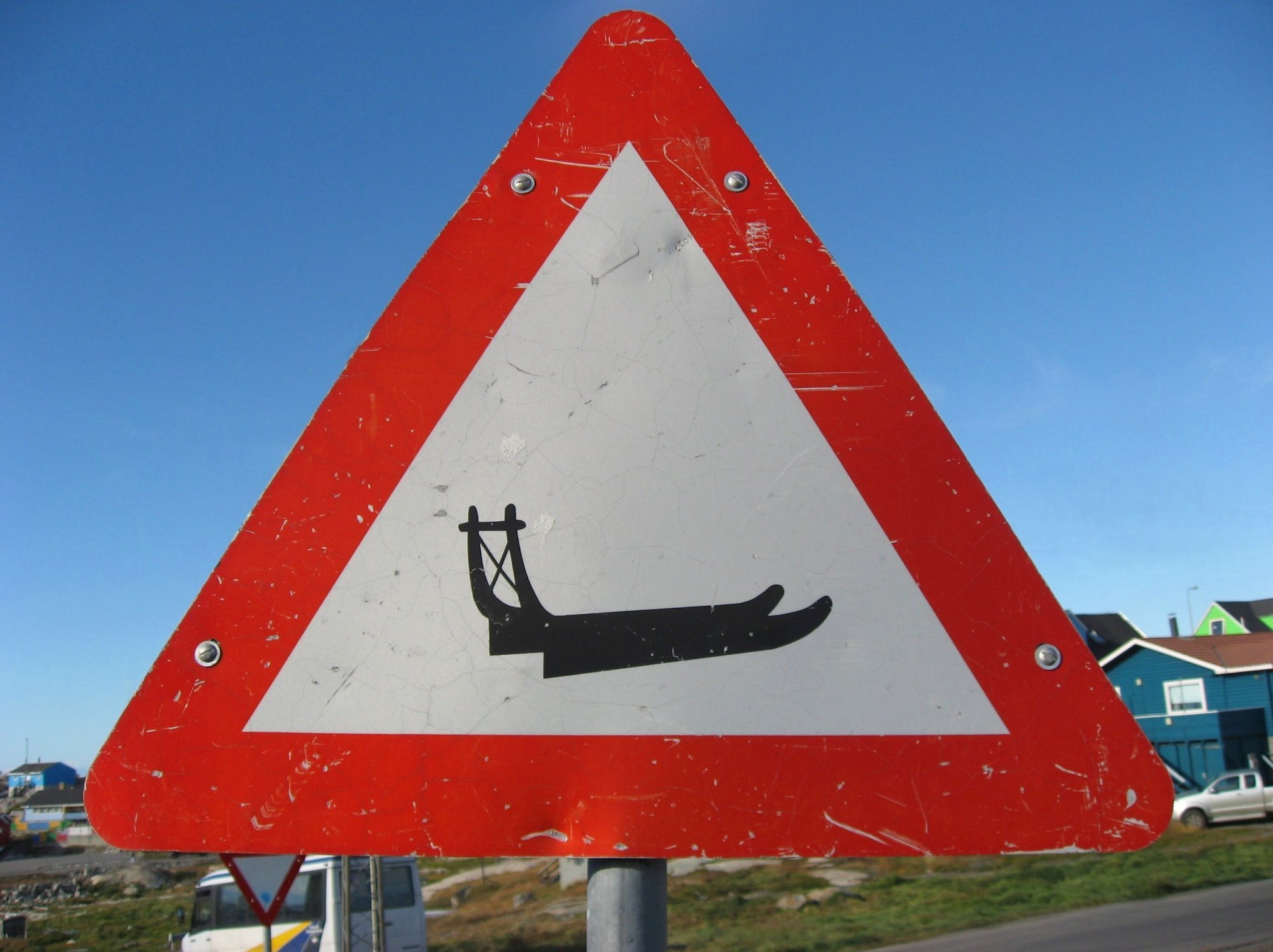 Dogsled roadsign at crossing in Ilulissat, Greenland.